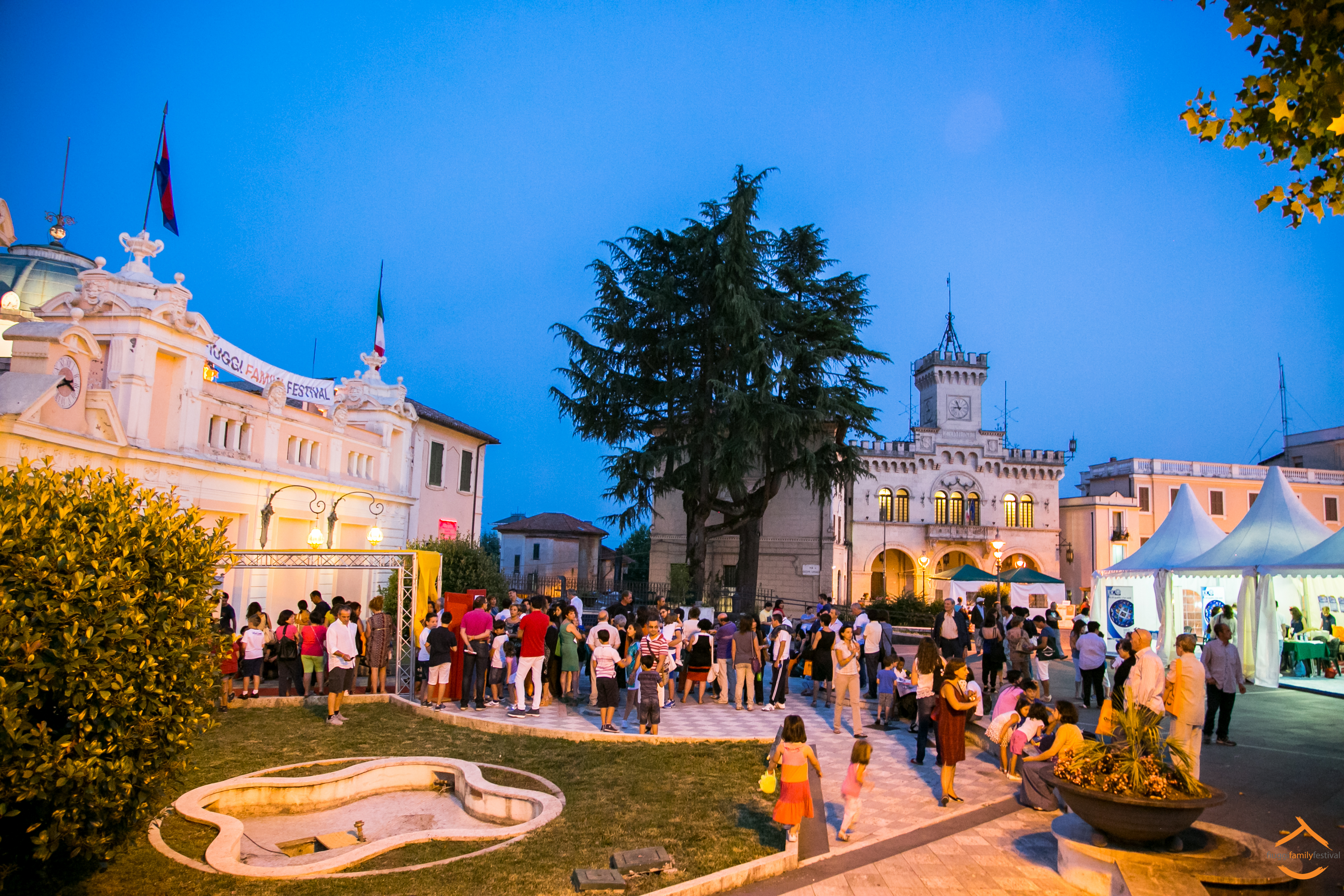 Lingresso del Fiuggi Family Festival